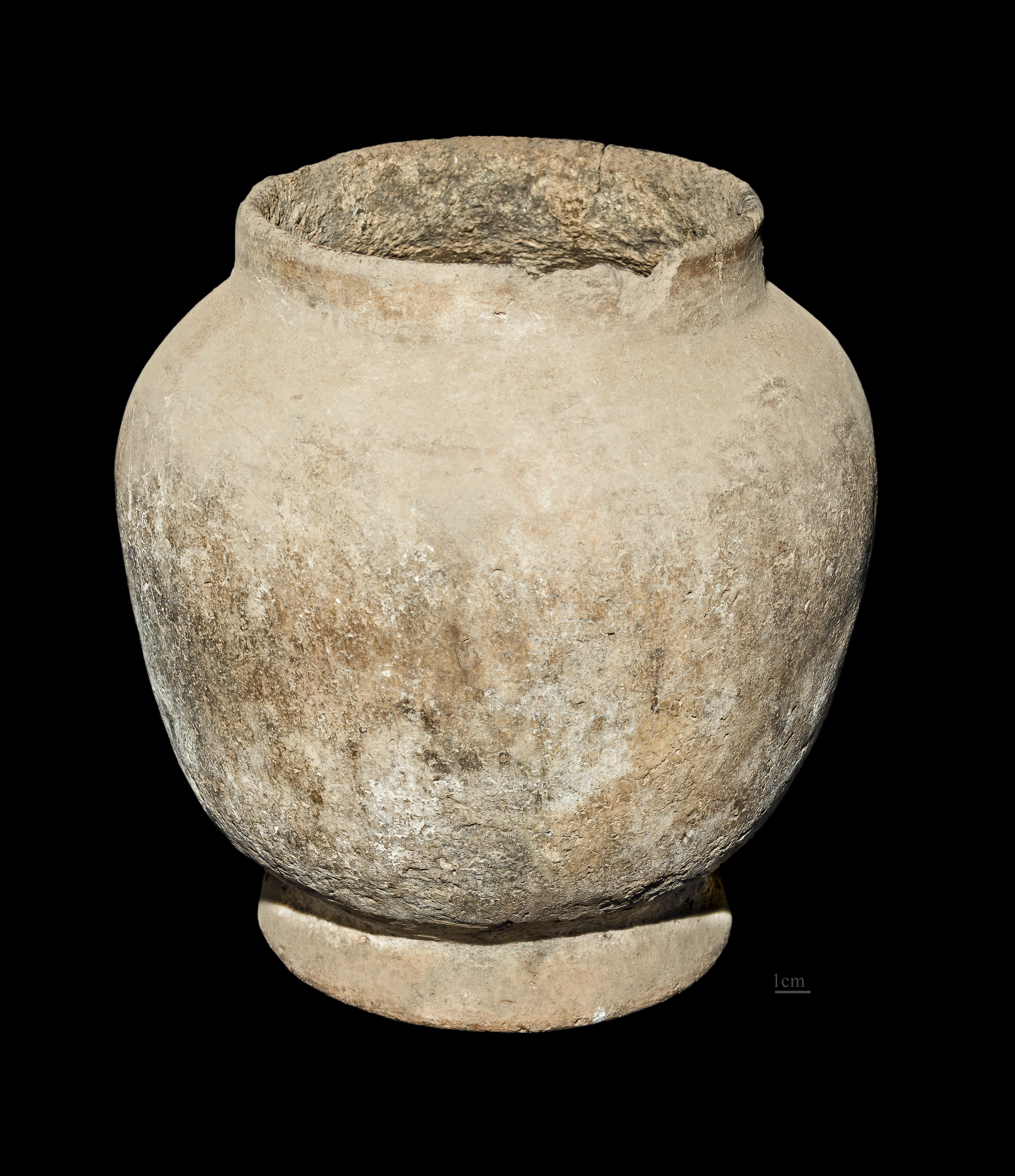 Ceramic Vase Stage: Holocene Bronze age 1800-1500 BC Locality: Samrong Sen, Cambodge Size : 18x18x19 cm Collection: Jean Moura